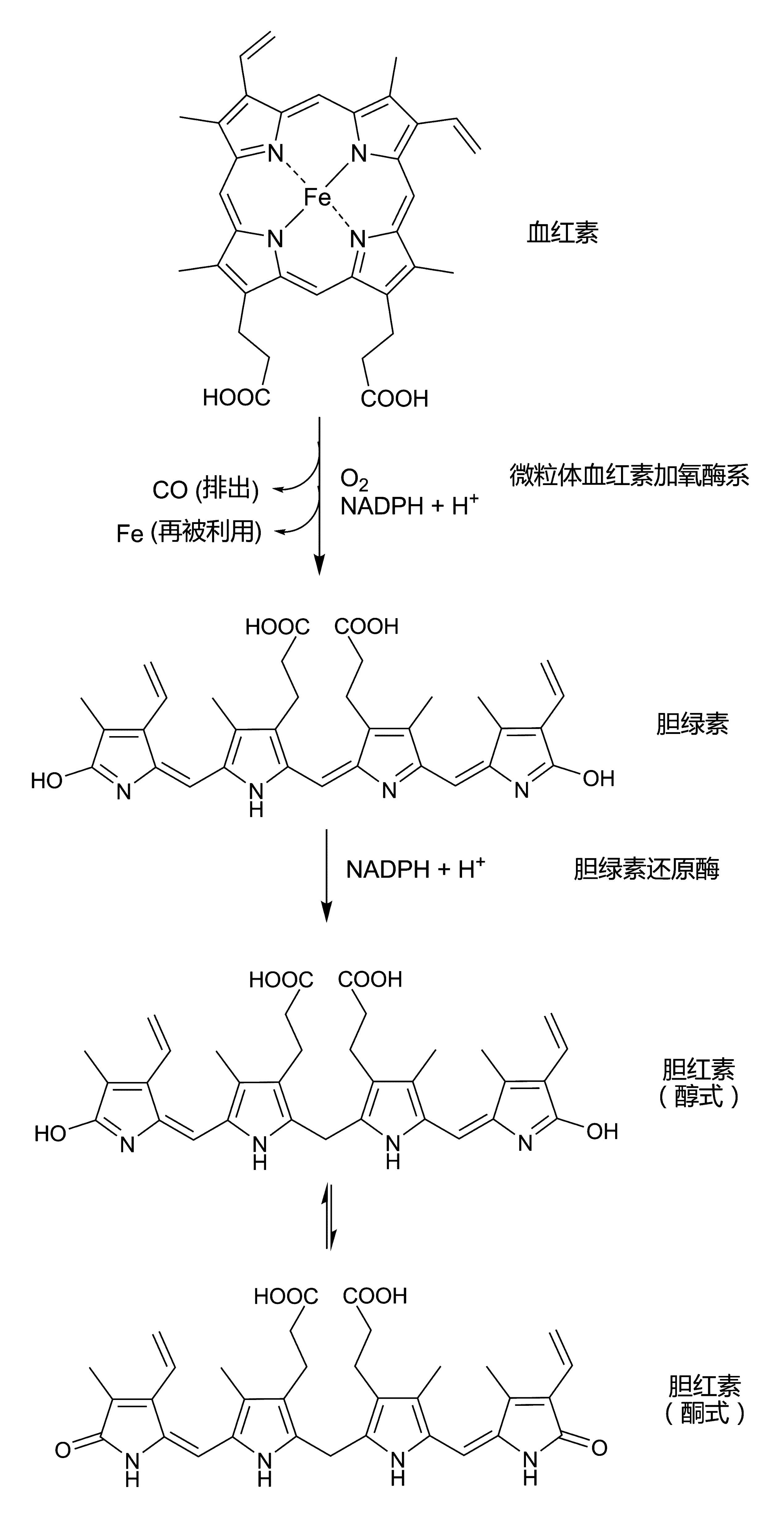 biosynthesis of bilirubin